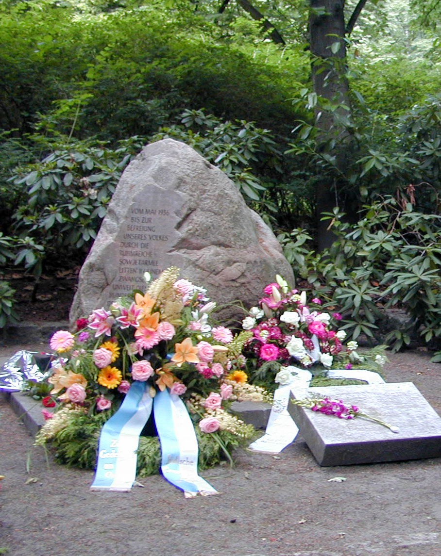 Memorial stone for the Sinti and Roma who have been gathered here in the Third Reich during the Olympic Games in 1936, before later deportation to the extermination camps. Taken during a commemoration ceremony in 2003. The stone has been carved by sculptor Jürgen Rave.